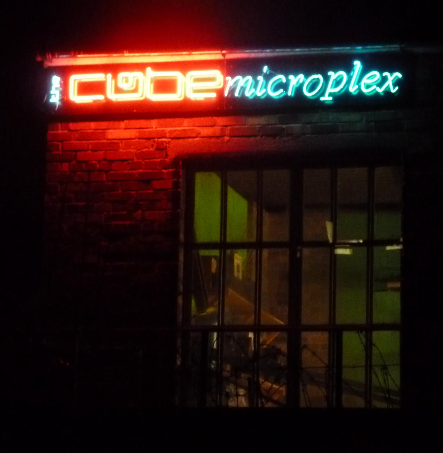 Exterior shot of the sign for the Cube Microplex in Bristol, England.